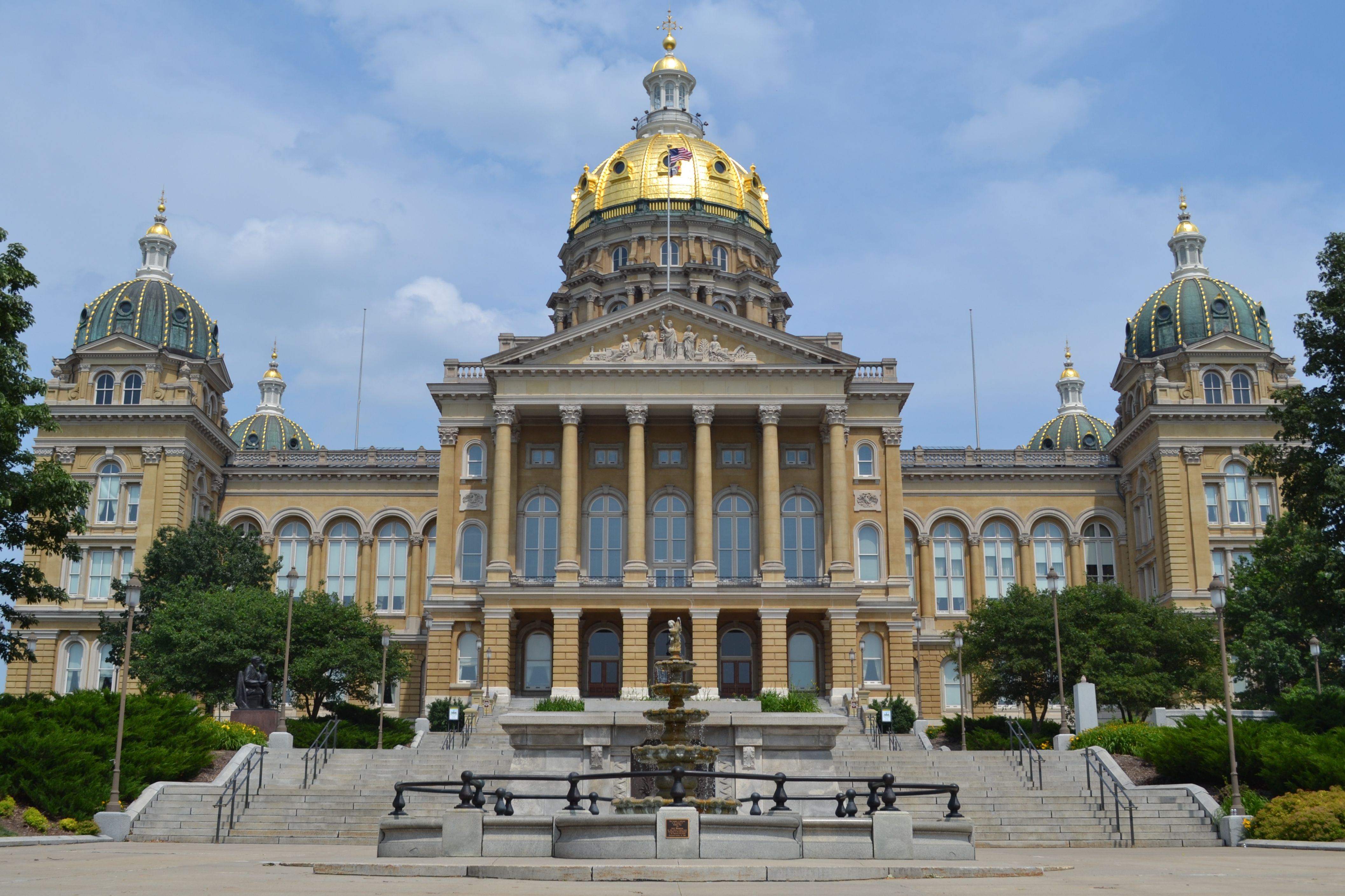 Iowa State Capitol